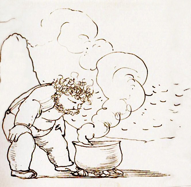 Caricature of William Morris cooking in Iceland by Edward Burne-Jones